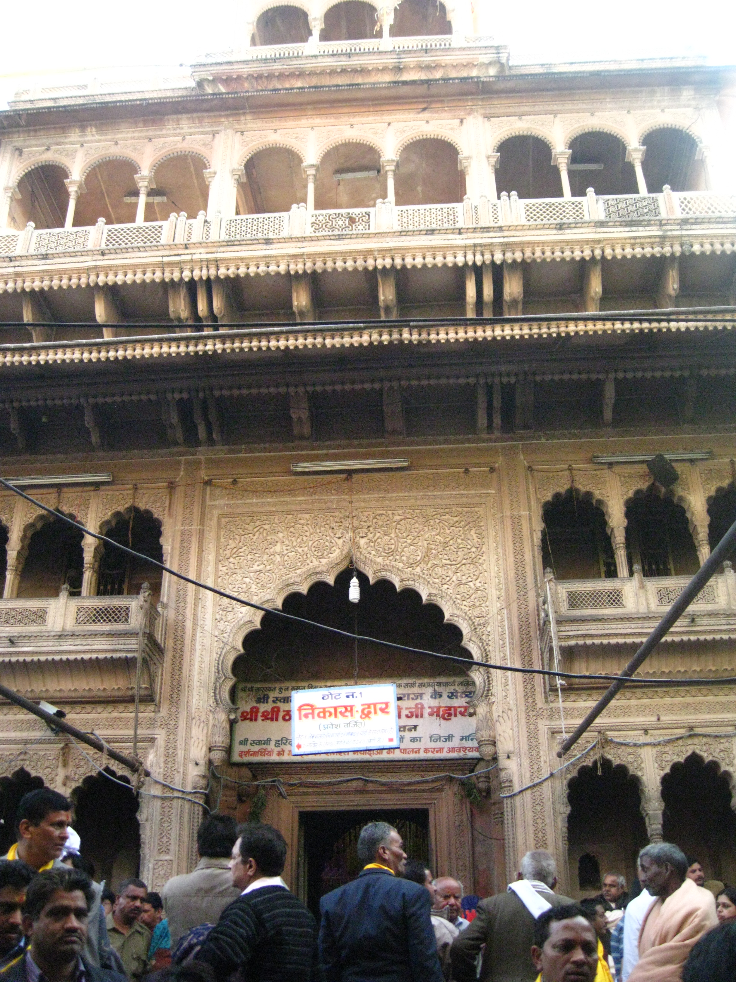 Main Gate of Bankey Bihari Temple, Vrindavan, Mathura, Uttar Pradesh India